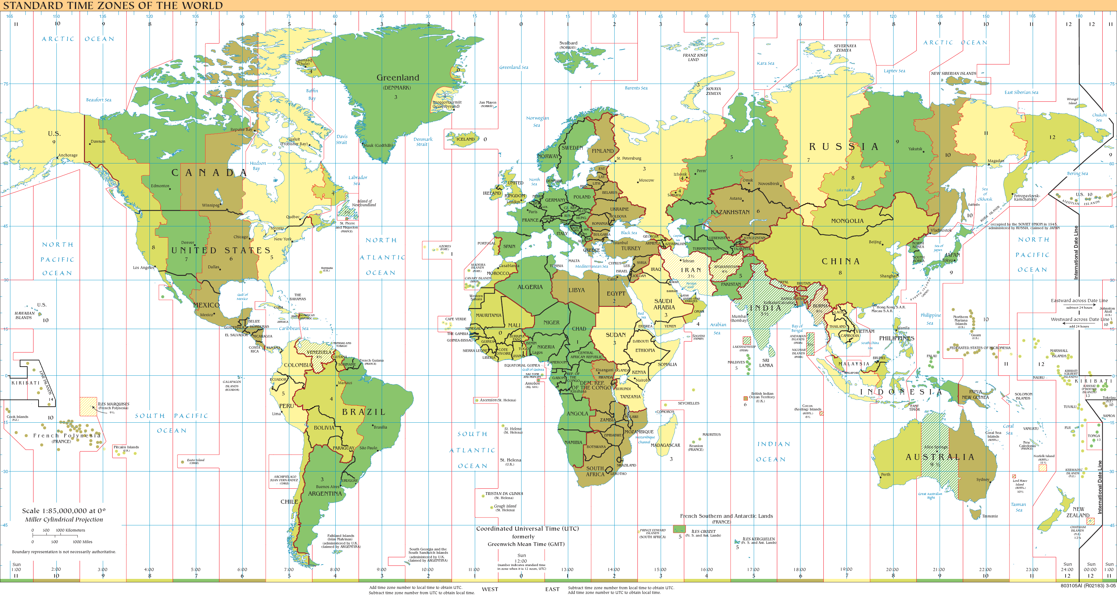 World map of time zones as of 2008, on the Miller Cylindrical Projection.